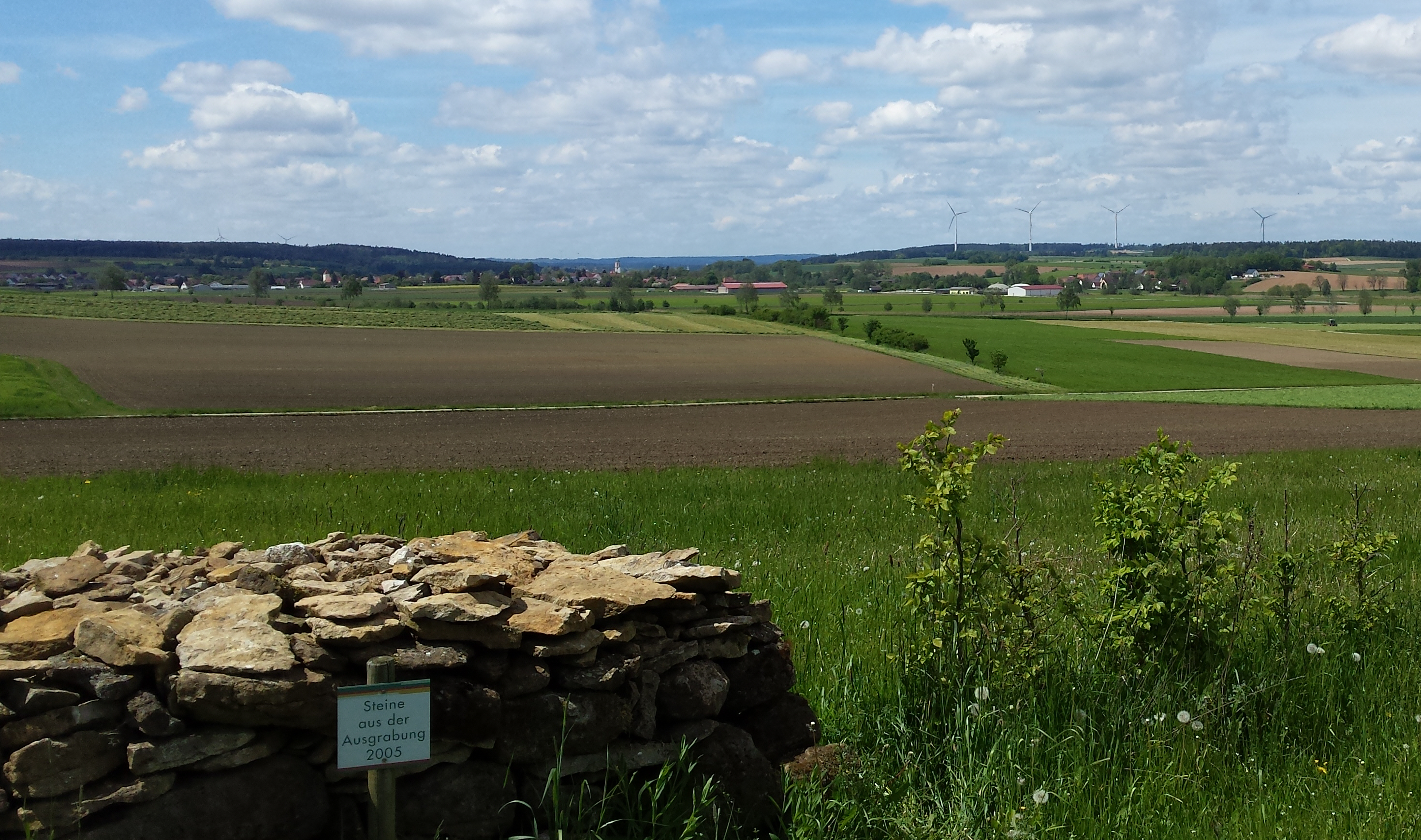 Weiltingen